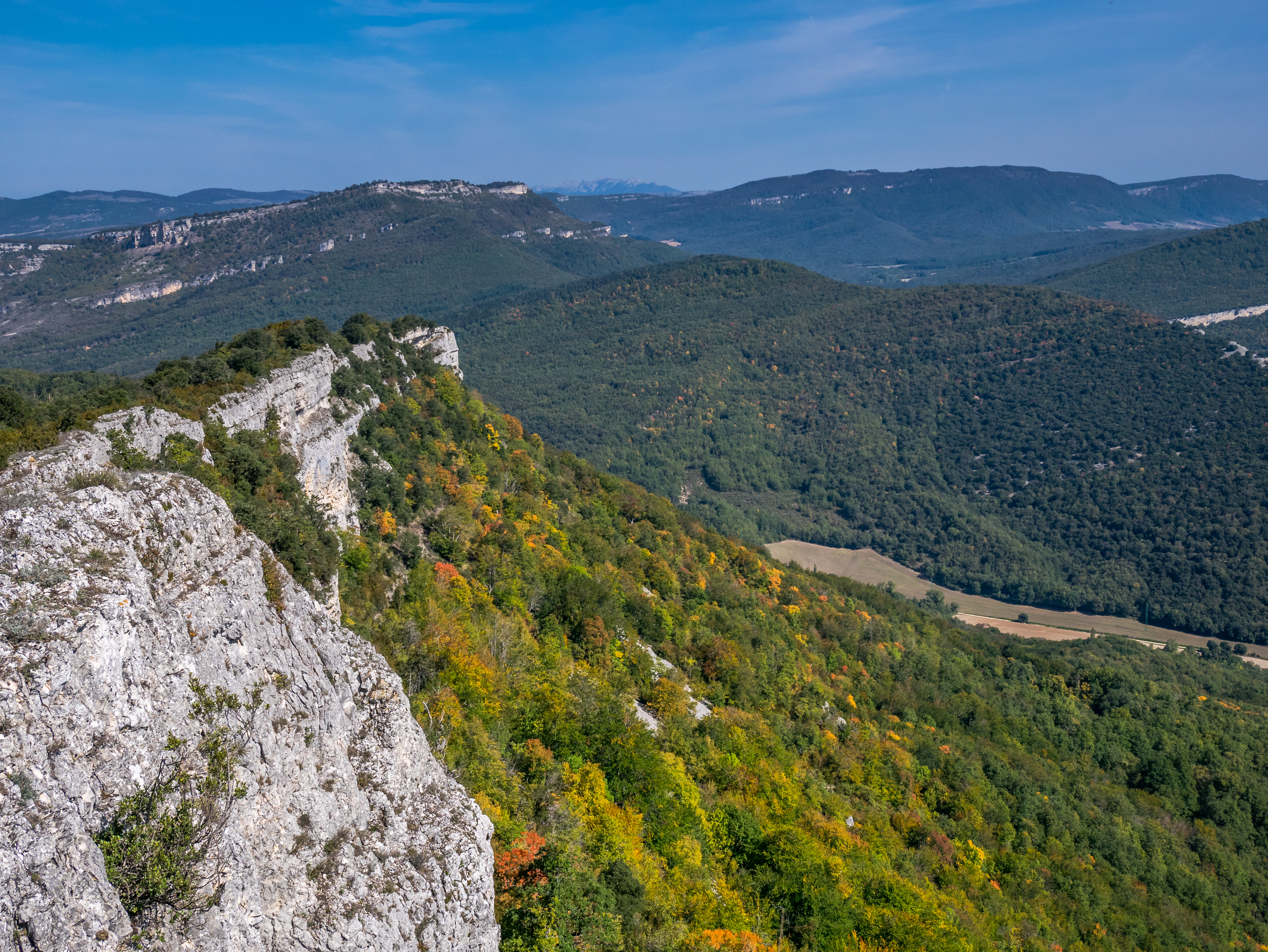 Views from Soila. Izki, Álava, Basque Country, Spain